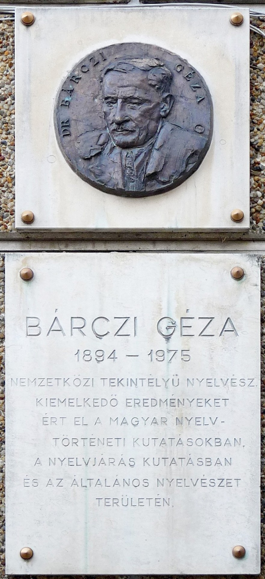 Commemorative plaque to Géza Bárczi (1894-1975), Kossuth Prize-winning Hungarian linguist and esperantist, a member of the Hungarian Academy of Sciences. It is located at the entrance of the elementary school bearing his name in Békásmegyer (Budapest). The bronze relief by artist Györgyi Lantos has been unveiled February 22, 2007. (Budapest, District III, Bárczi Géza Street Nr 2)